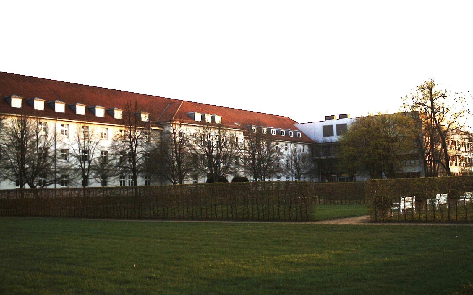 The Hospital of Karlsburg, Germany, West-Pommerania